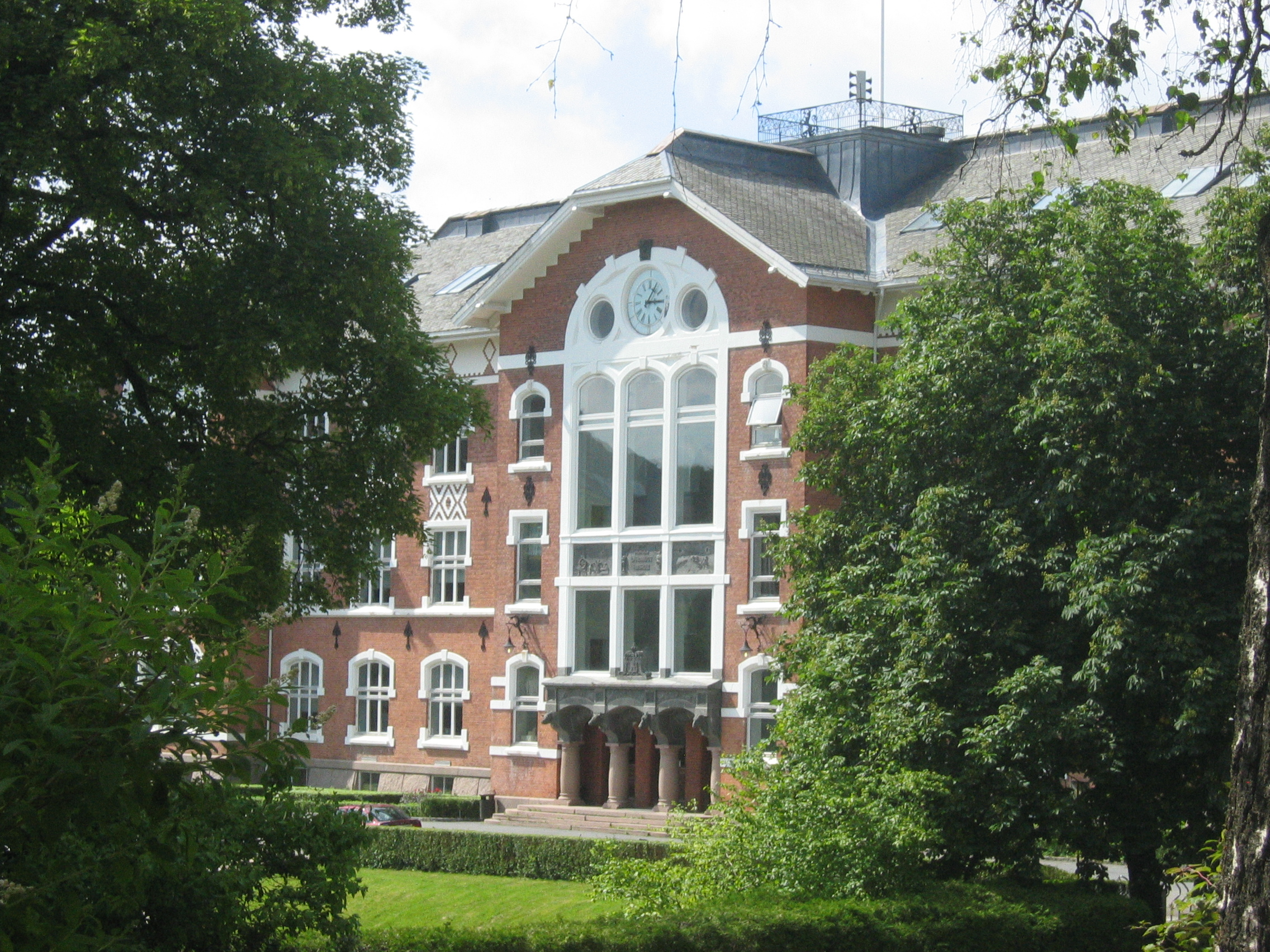 Norwegian University of Life Sciences in Ås, Norway, formerly Norges landbrukshøgskole, entrance seen from the park